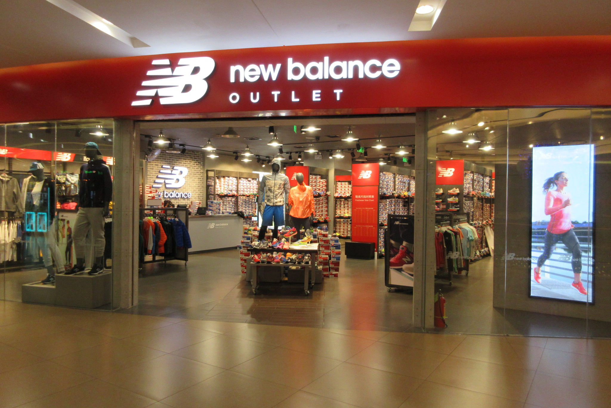 SZ 深圳北站 Shenzhen North Station 東廣場 East Square 繽果空間購物中心 Bingo Space Shopping Center shop clothing in Feb 2017 IX1